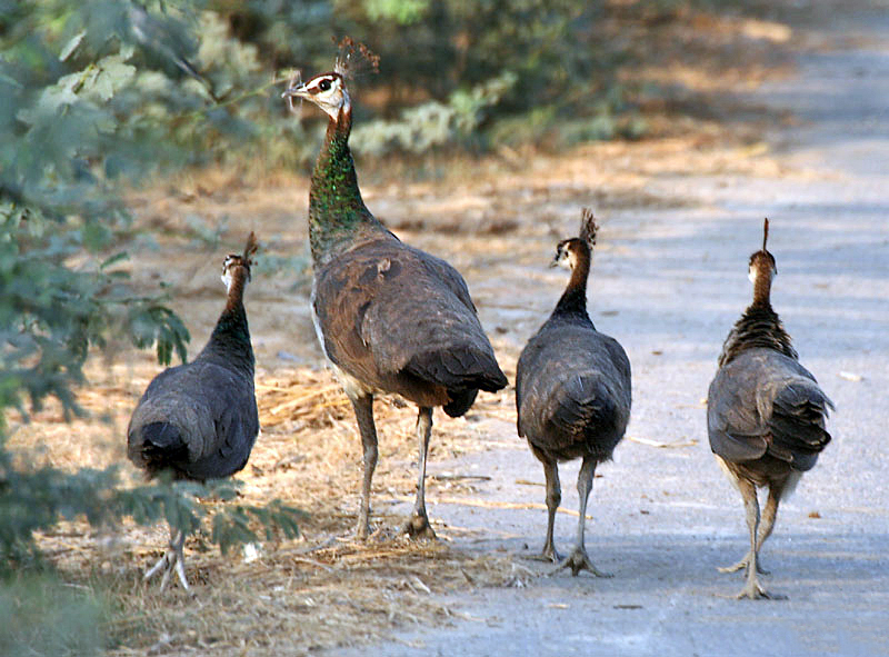 Female Indian Peafowl with immatures at Hodal in Faridabad District of Haryana, India.